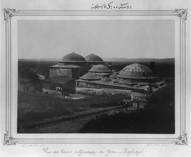 Yeni Kaplıca (New Thermal Spring) in Bursa between 1880 and 1893